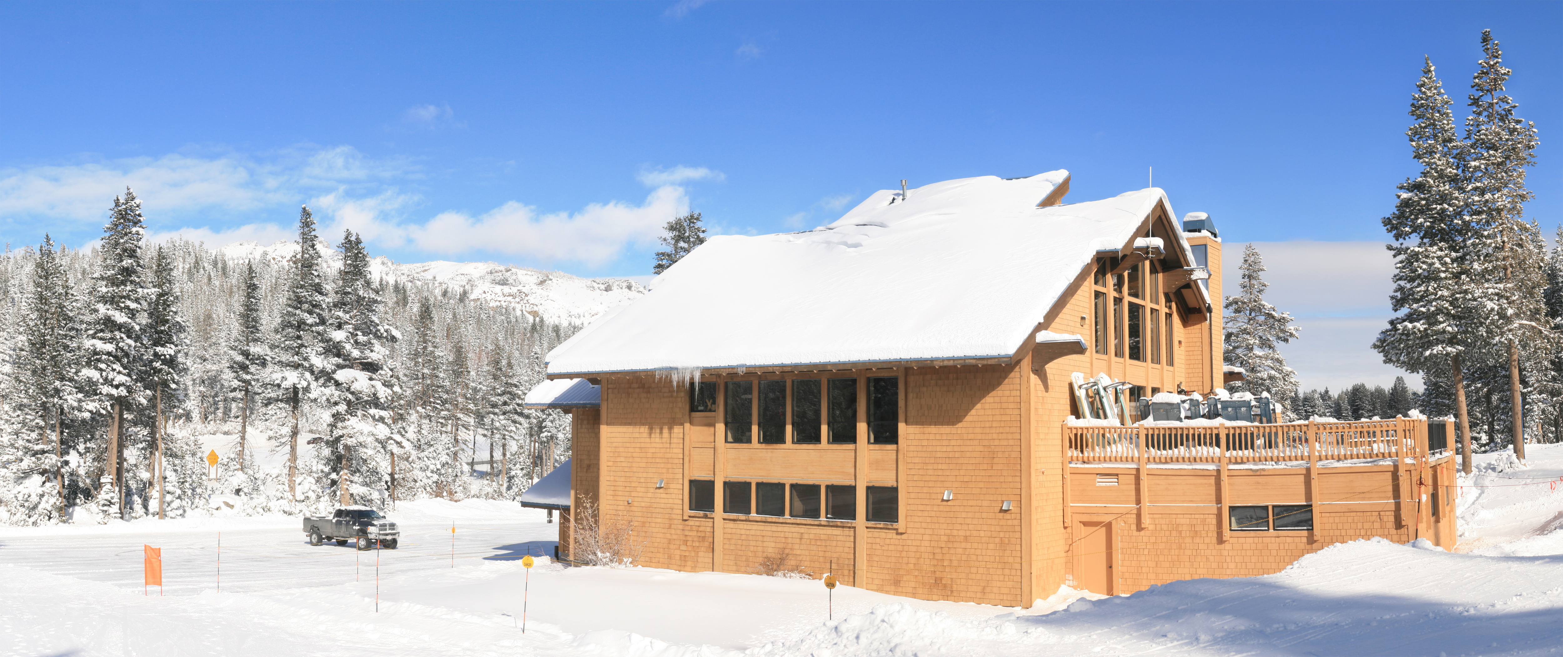 Ski lodge in Boreal, California